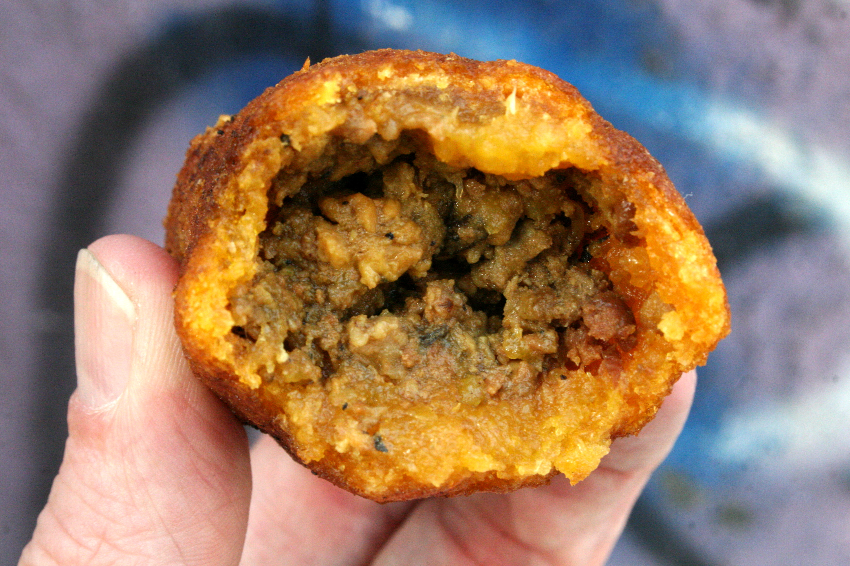 The filling of an alcapurria. Photo taken at the La Isla Restaurant, East 14th Street (between Avenue A and Avenue B), Peter Cooper Village—Stuyvesant Town, East Village, Manhattan, New York City, New York. Photo taken with a Canon EOS 30D digital camera. and (entries about this food item from the blog of the photographer)